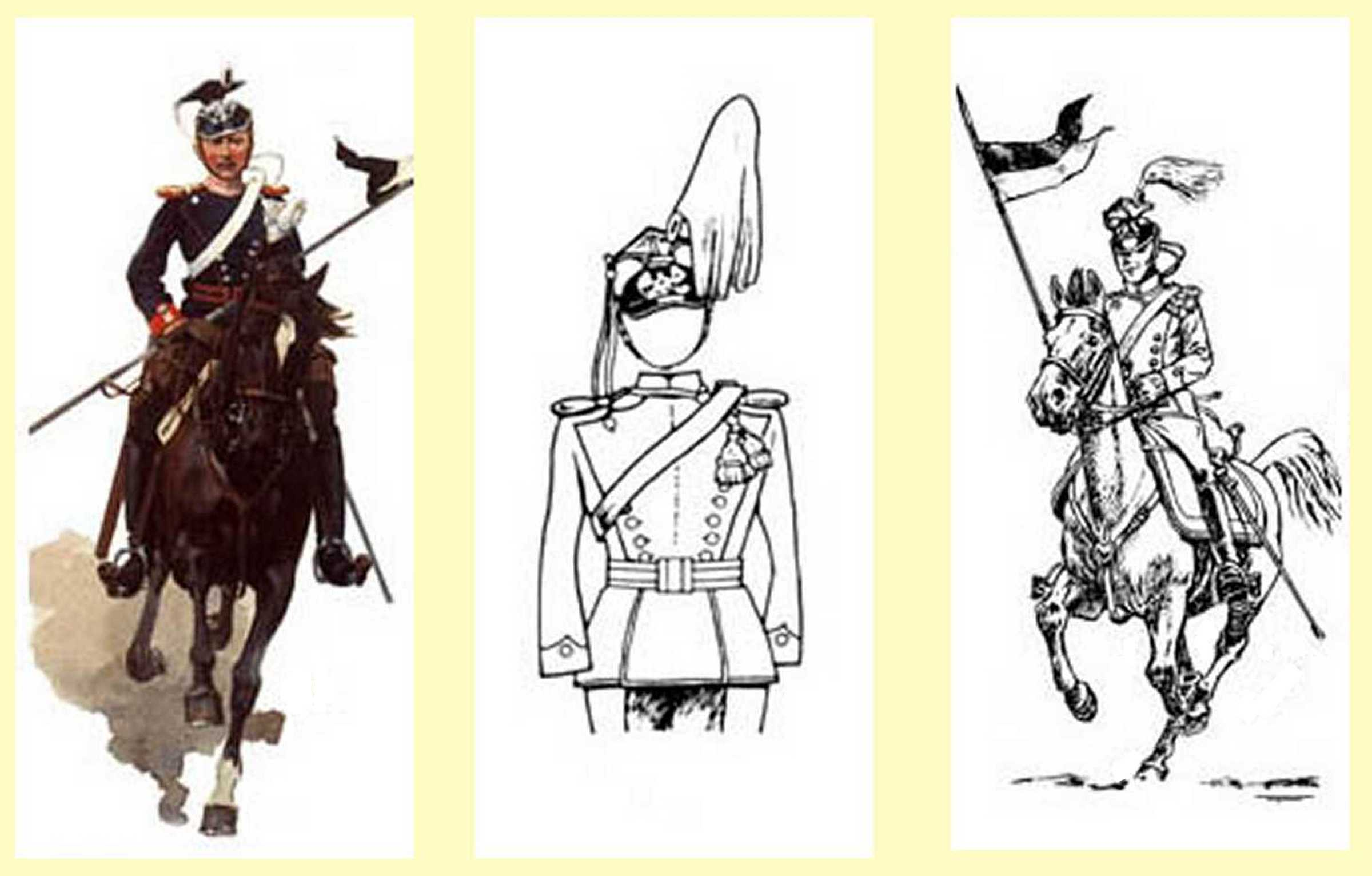 Uhlans (mounted lancers) wearing the Czapka helmet (Polish spelling, Tschapka, German spelling)